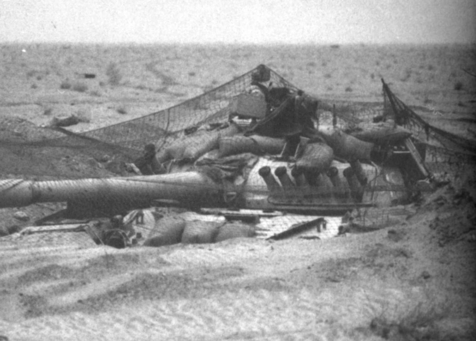 A dug-in T-72 Asad Babil tank abandoned after the battle of Battle of Norfolk, 26 February 1991